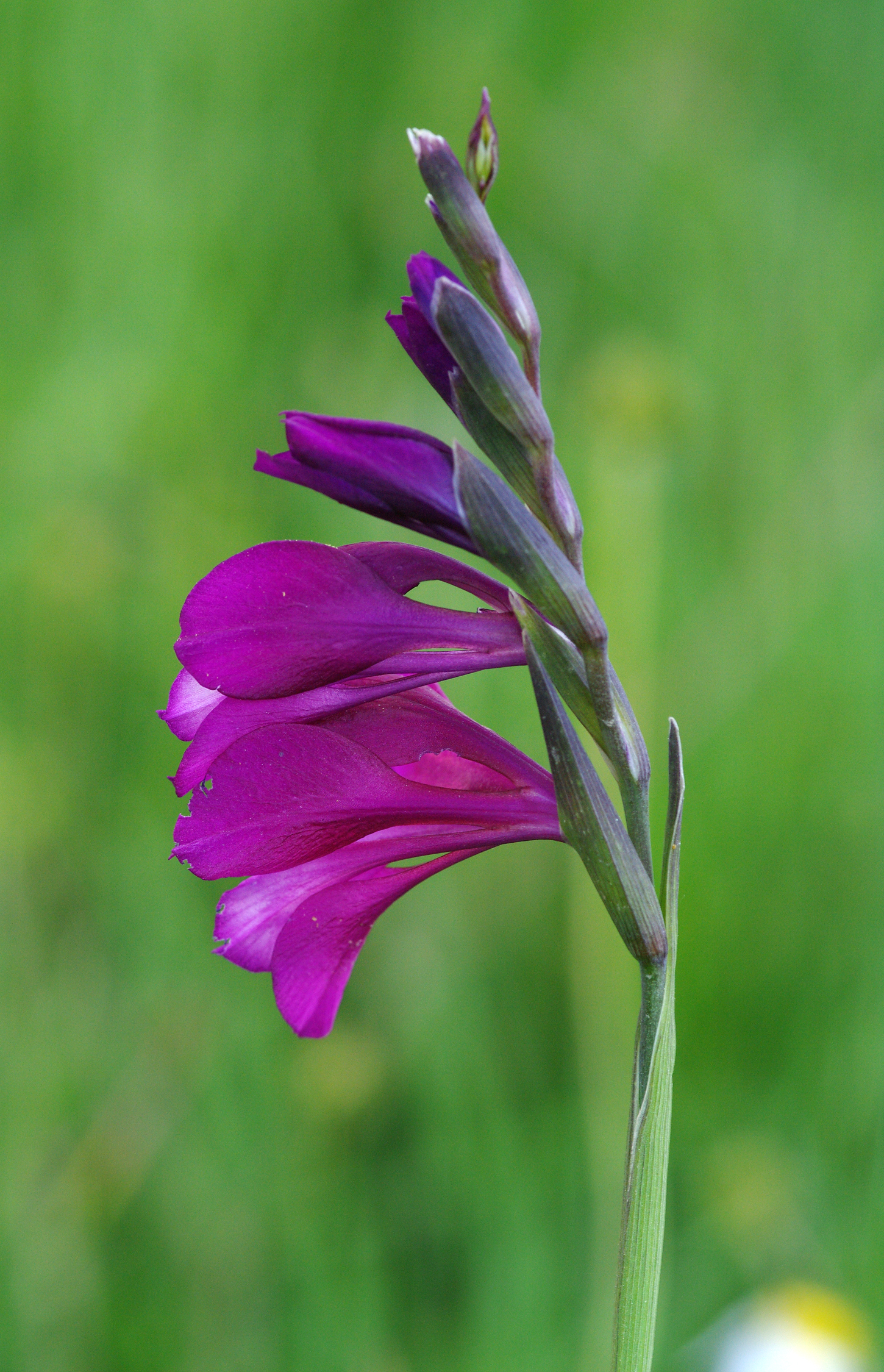 Flowers of Kotschy's gladiolus (Gladiolus kotschyanus).